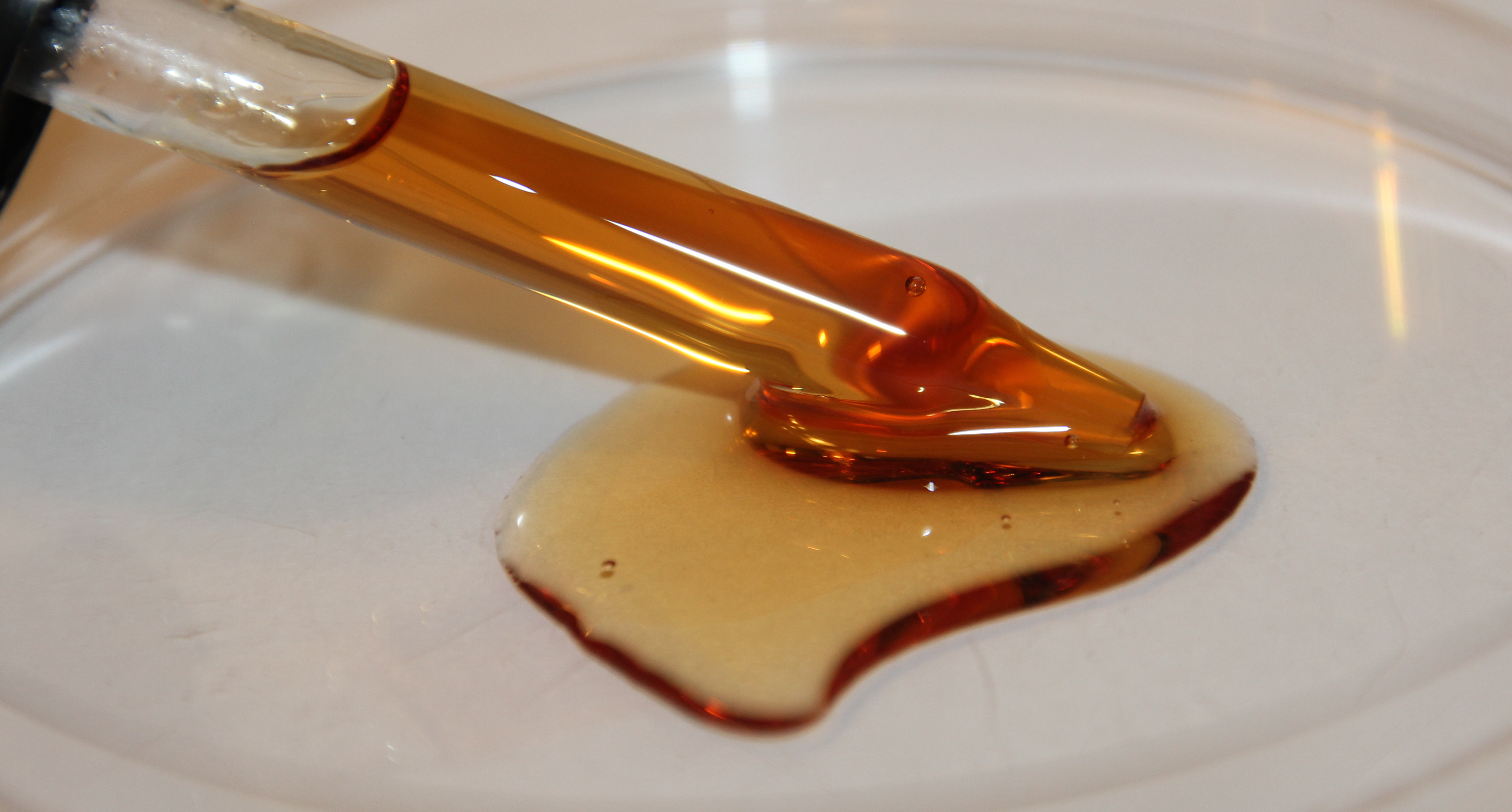 Sample of alpha-tocopherol